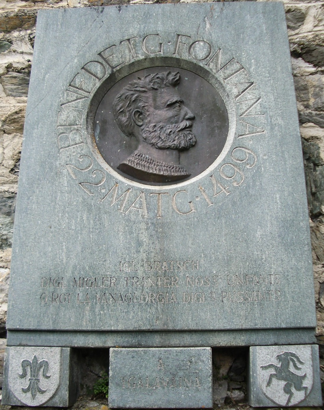 Memorial for Benedikt Fontana, at Burg Rätia Ampla, Riom, Grisons, Switzerland. The inscription is on Romansh in the idiom Surmiran and means: The arm of the best among our brothers has broken the vainglory of the powerful; and below: In Calven Rumantsch: Tavla commemorativa da Benedetg Fontana agl sies li da domicil: Igl casti Rätia Ampla a Riom, Grischun, Svizzra. Cun l'inscripziun Igl bratsch digl migler tranter noss unfants ò rot la vanaglorgia digls pussants; e sot: A Tgalavaina.